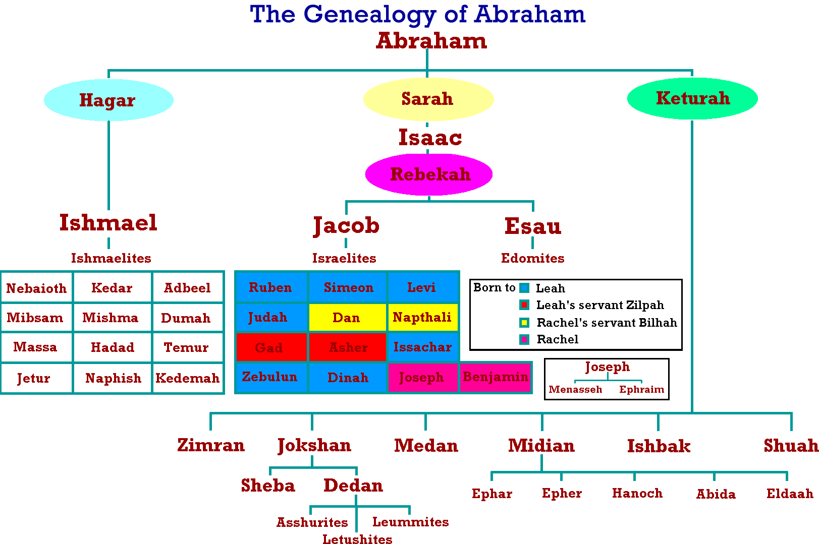 This is genealogy decedans from Abraham, based on the mythic bible and thora.